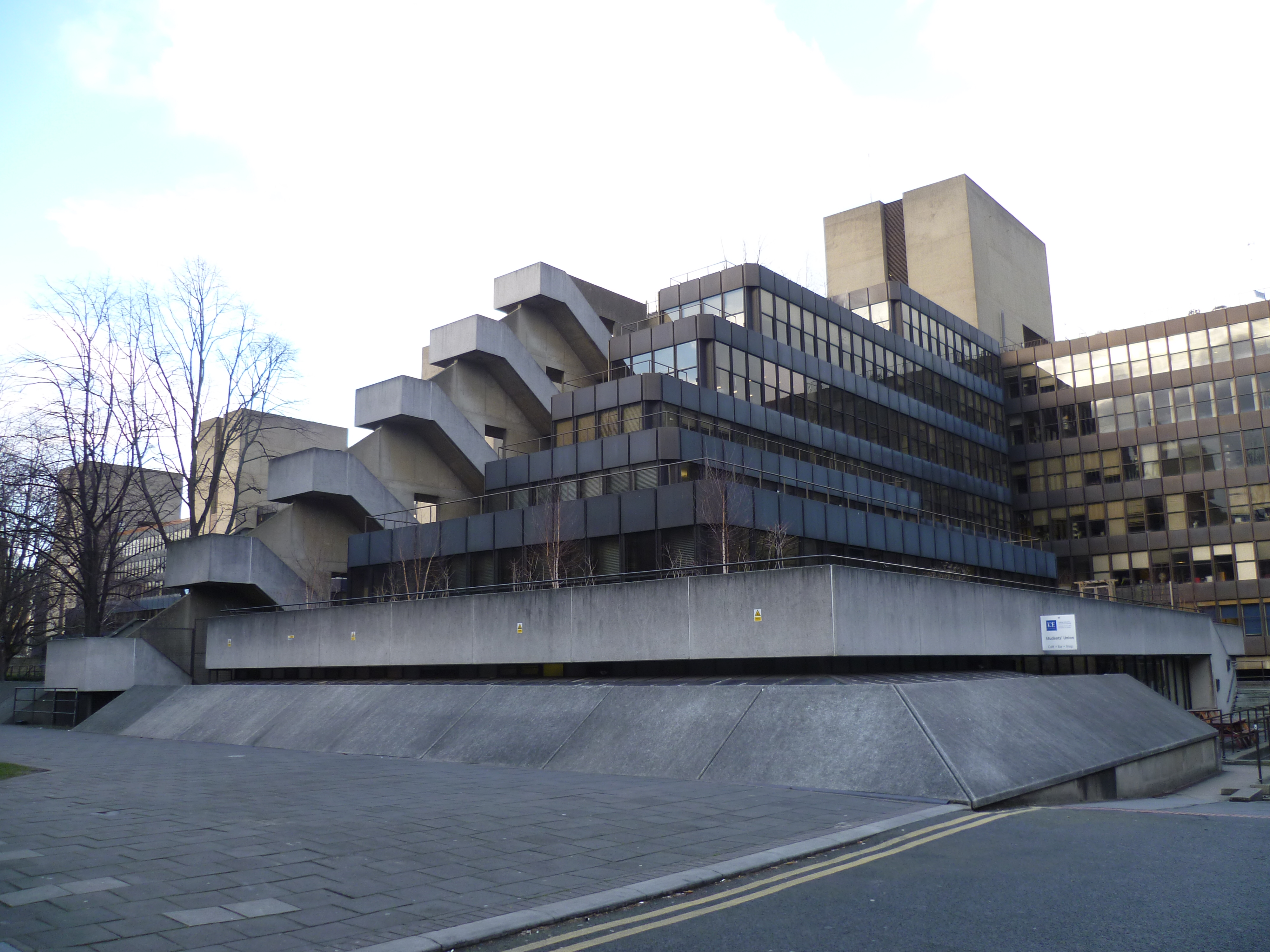 Institute of Education rear